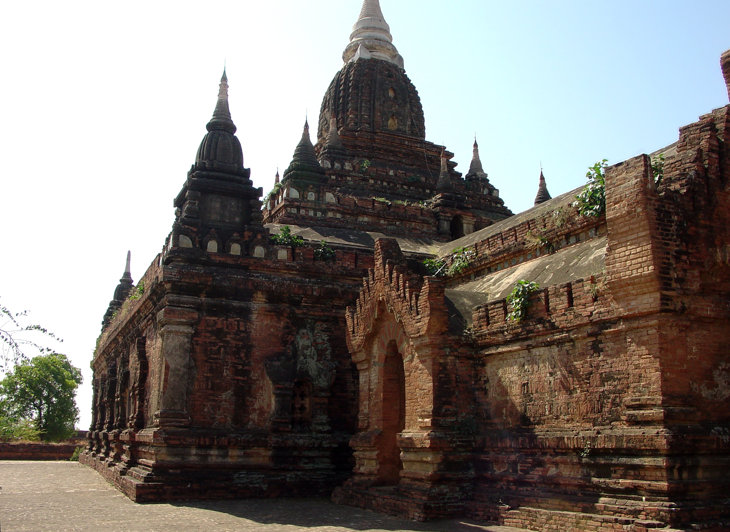 This view was taken from slightly east of north. The entrance hall occupies the right side of the picture. Behind the entrance hall is the main shrine, crowned by its sikhara, and decorated by multiple miniature towers, having the same shape, which are placed upon the several corners of the superstructure.